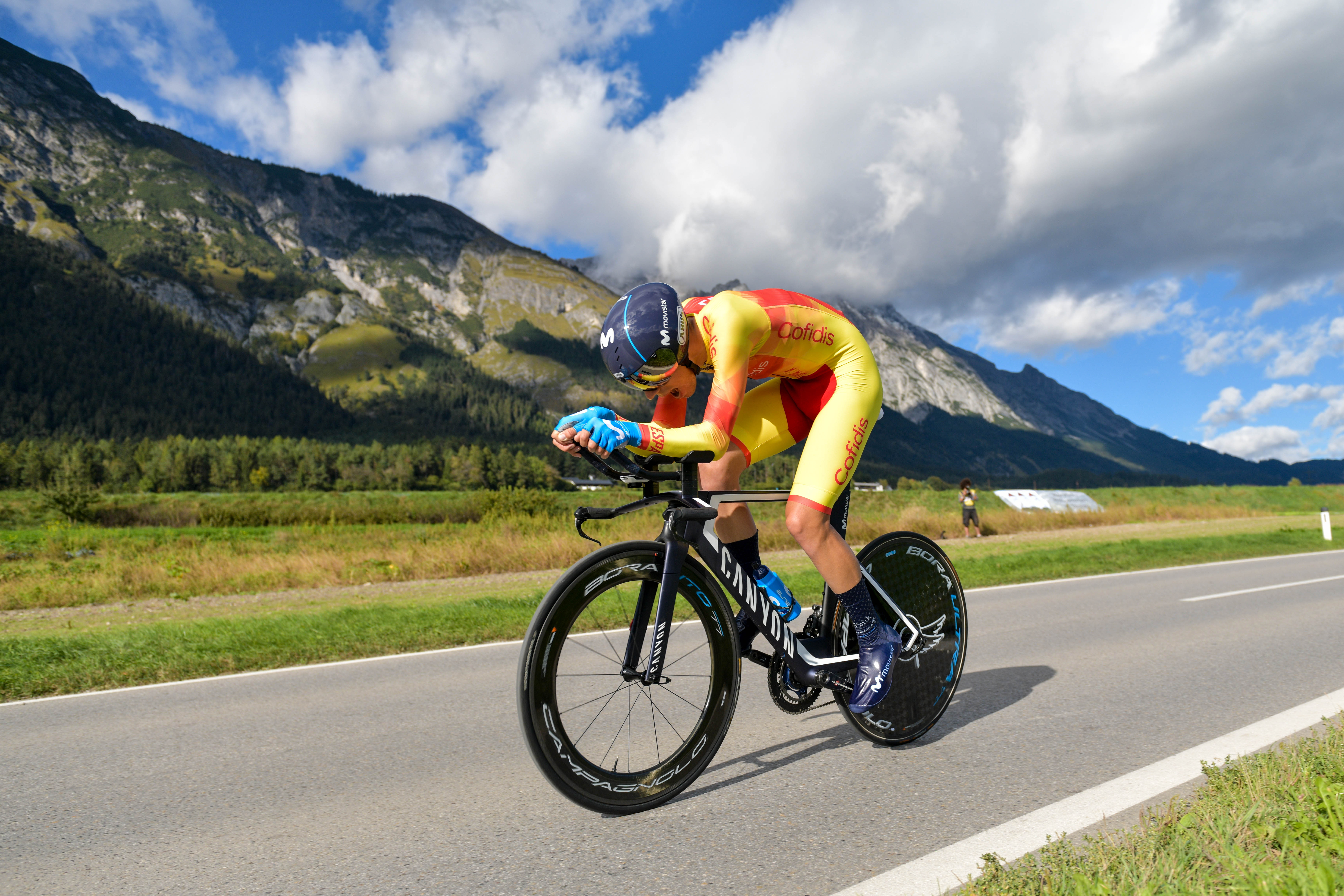 2018 UCI Road World Championships Innsbruck/Tirol Men under 23 Individual Time Trial. Picture shows: Jaime Castrillo Zapater of Spain